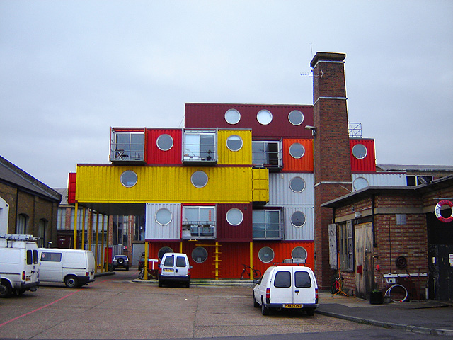 Container City 2, Leamouth, Tower Hamlets, London. 4 February 2006. Photographer: Fin Fahey. Modular live/work units built using old shipping containers.